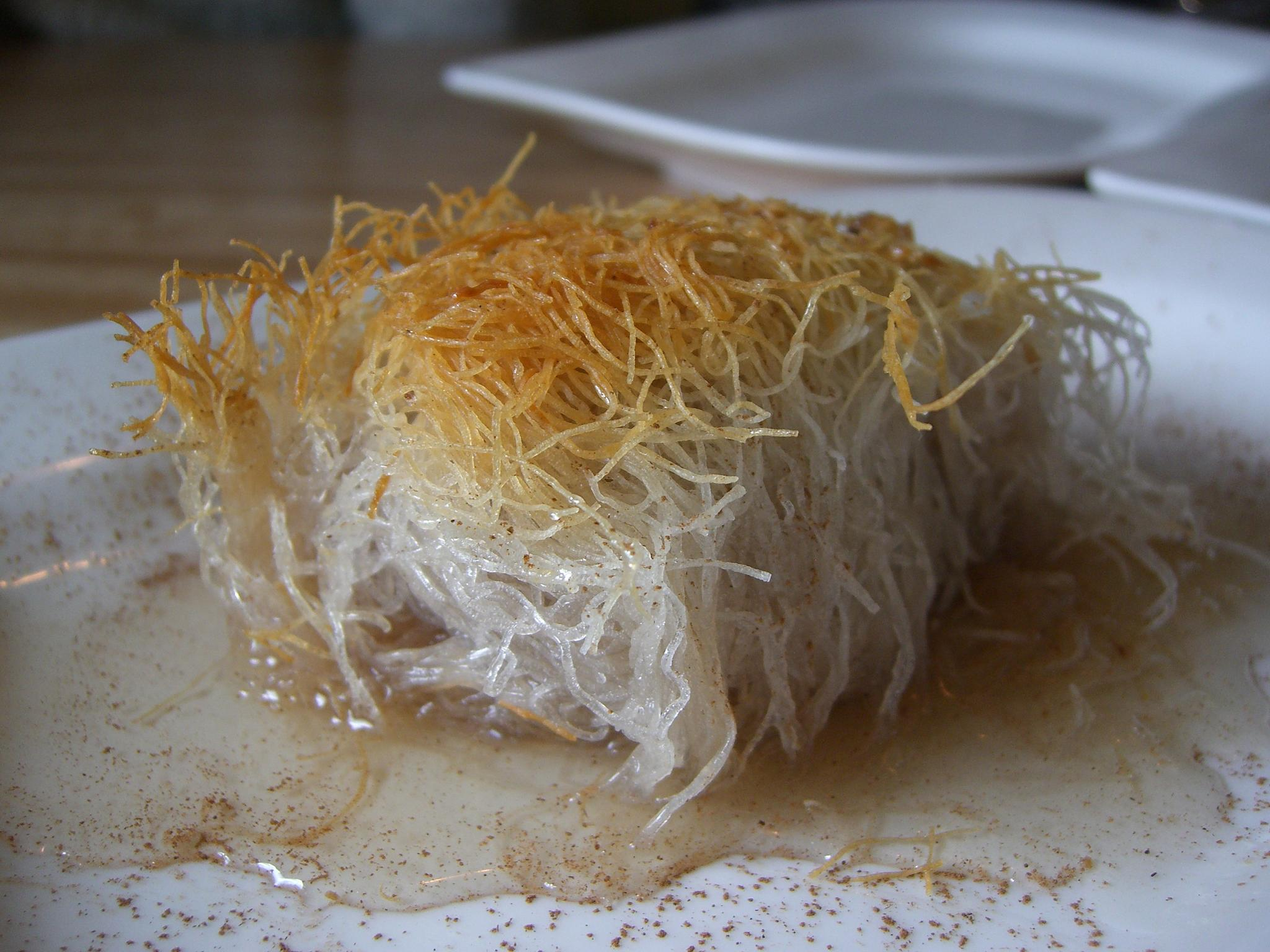 What better way to spend a lazy Saturday afternoon than lounging around at Vanilla Loune, just like the rest of the Greek community in Oakleigh :) The frappe here was an excellent specimen, made using good Greek coffee, unlike on the Greek islands where you'd occasionally get instant coffee! Vanilla Cakes & Lounge (03) 9568 3358 17 -21 Eaton Mall Oakleigh VIC 3166 Photos: - [/photos/avlxyz/2895072894/ Cake Display] - [/photos/avlxyz/2895073536/ Kataifi] - baked shredded filo pasty with walnuts drizzled with spiced honey - kataifi - wikipedia - [/photos/avlxyz/2894231353/ Bougatsa] - custard in filo pastry - bougatsa - wikipedia - Frappe - whipped Greek coffee, metrio (medium sugar) with milk